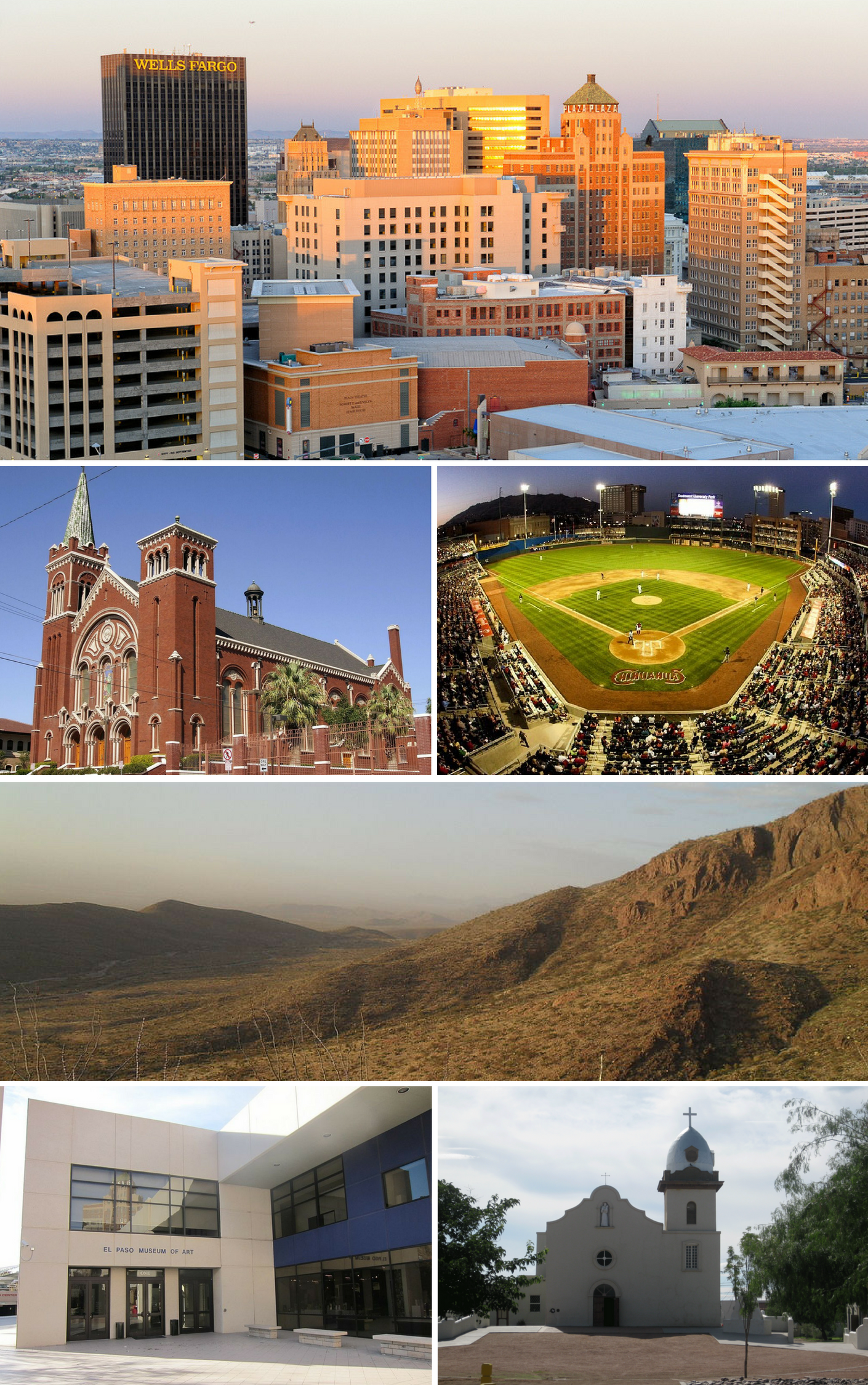 Images derived from Wikimedia Commons for the purpose of use on El Paso articles